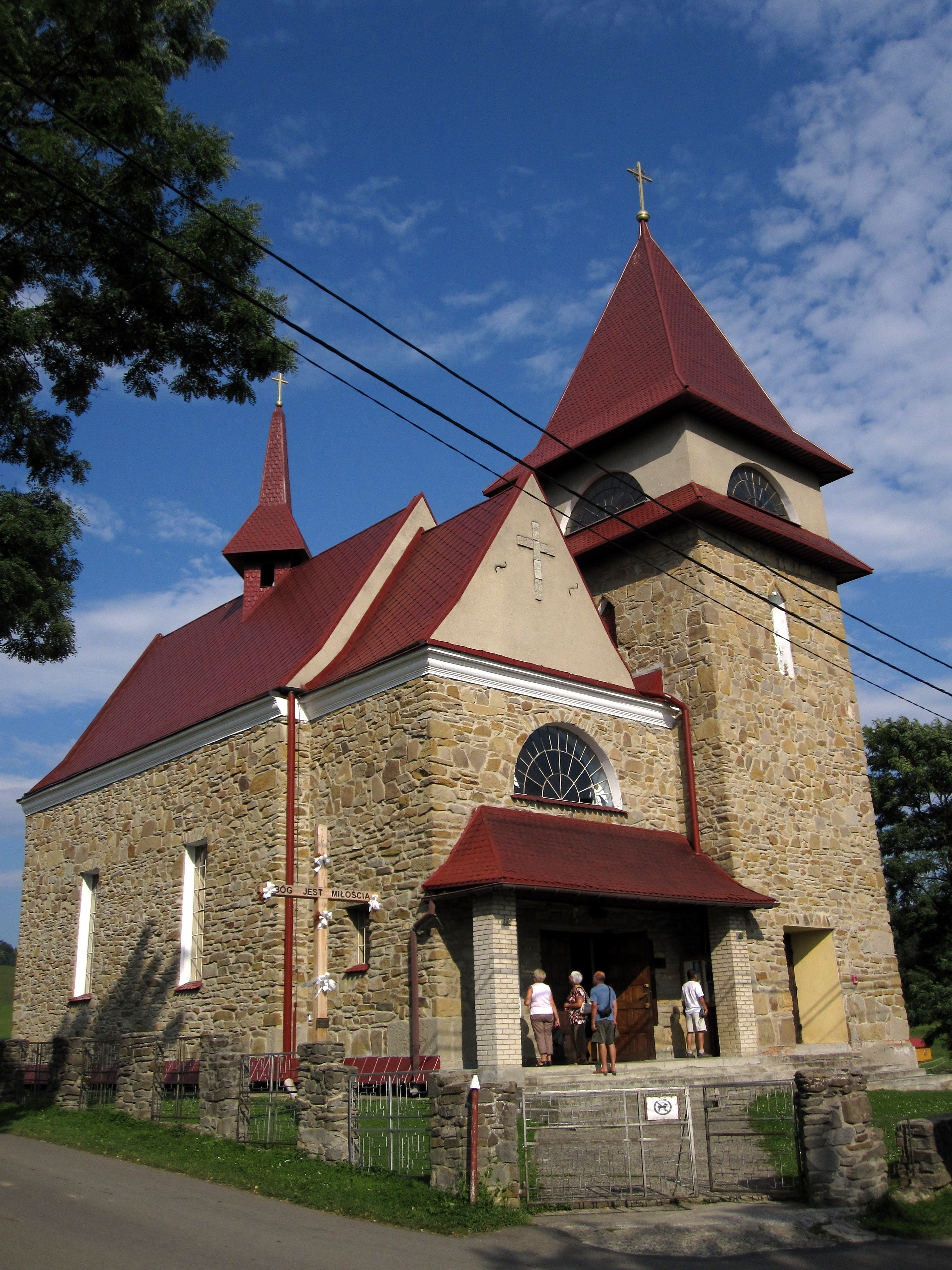 Church of Our Lady, Mother of the Church in Zawóz village